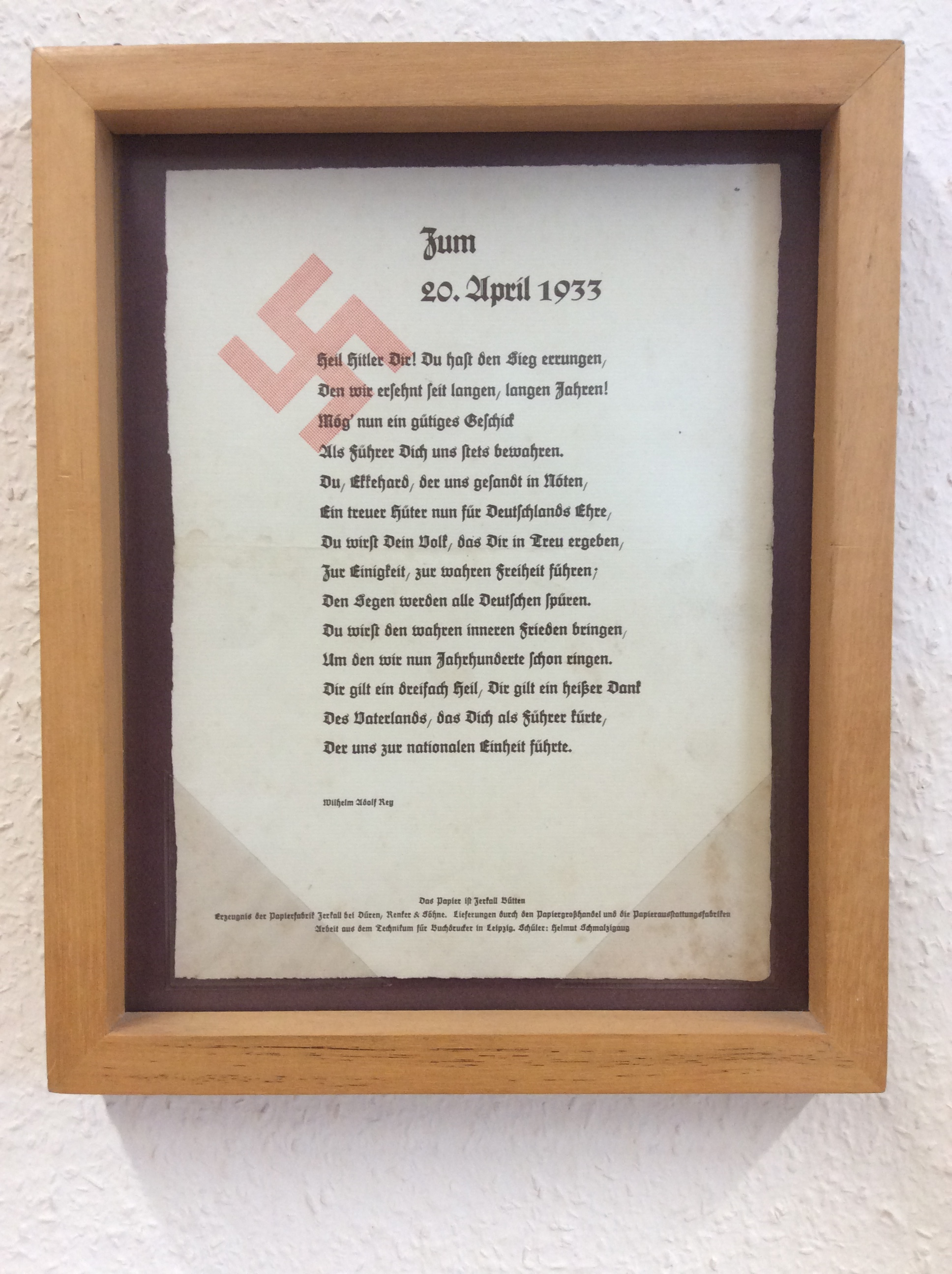 NSDAP Propaganda